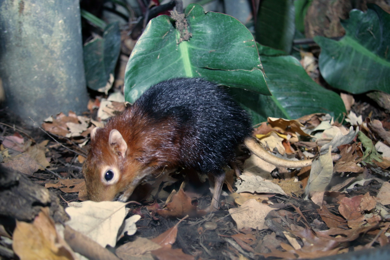 Although they enjoy good vision and hearing, elephant-shrews explore their world nose first. The noses twitch constantly, probing and sniffing every detail of their forest floor habitats, searching for crickets, spiders, termites, ants, and other invertebrates to eat. The noses are also busy investigating the scent messages left by other elephant-shrews. As elephant-shrews travel about their territories, they rub various glands along the ground, depositing odorous secretions for other elephant-shrews to “read.”